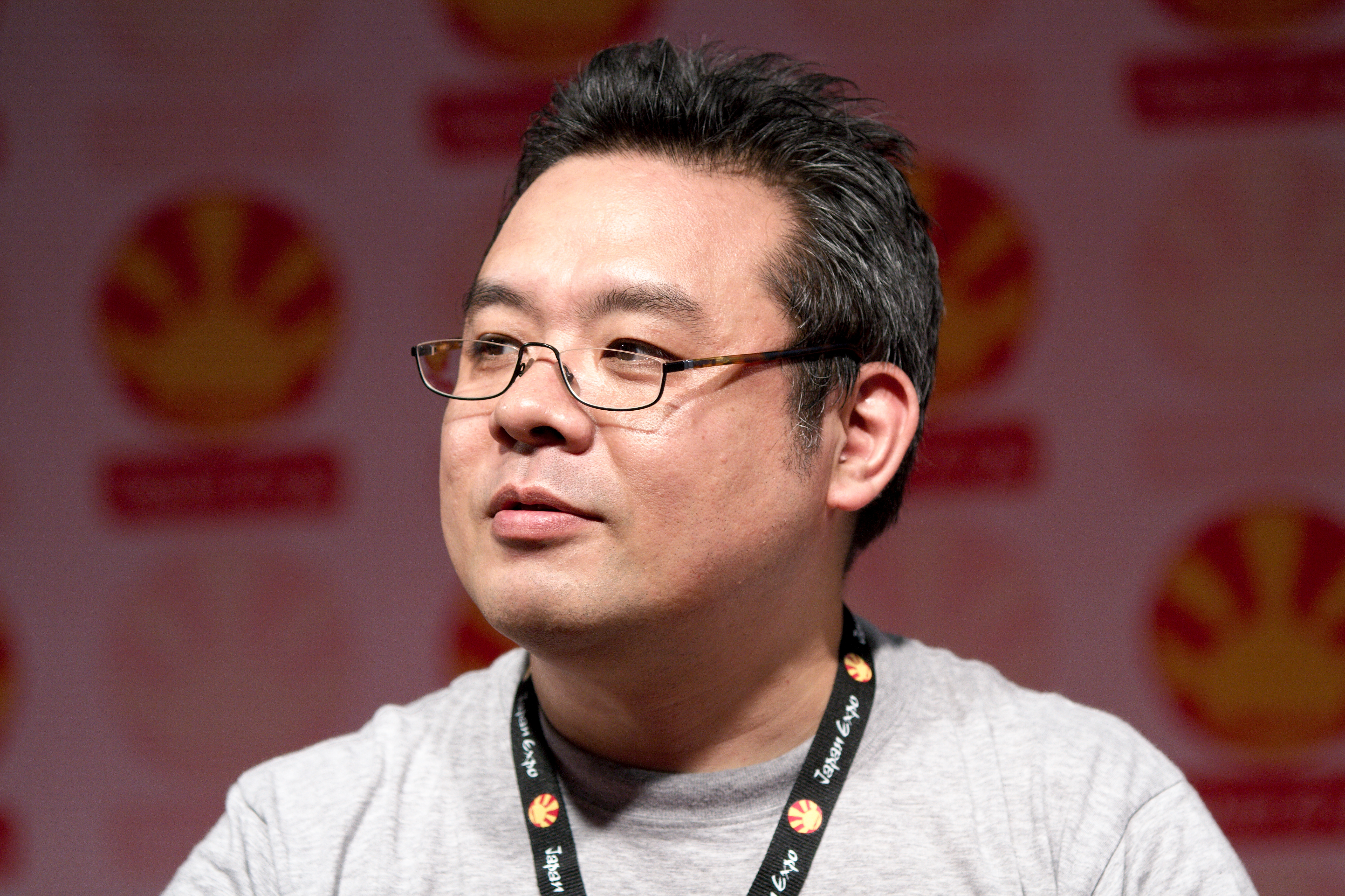 Autograph session with Yasuhiro Nightow at Japan Expo 2011 (Paris, France).